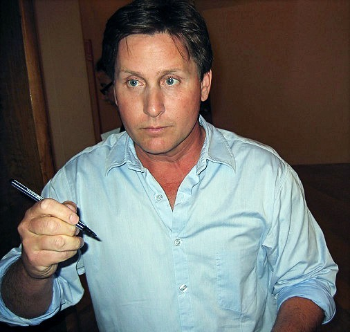 Emilio Estevez at the Venice Film Festival in 2006